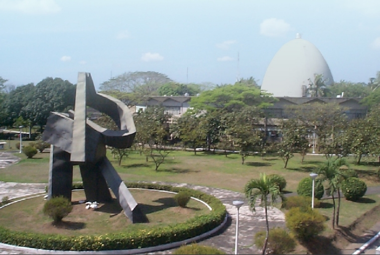 The Philippine Nuclear Research Institute compound, with the Philippine Research Reactor-1 (white dome) in the background.